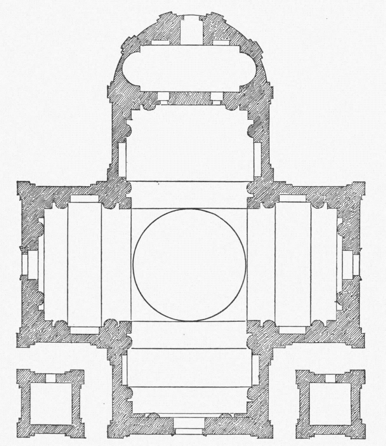 Scan from book 'Character of Renaissance Architecture'